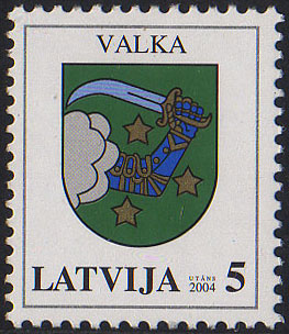 Latvian postage stamp definitive depicting the Valka town coat of arms.